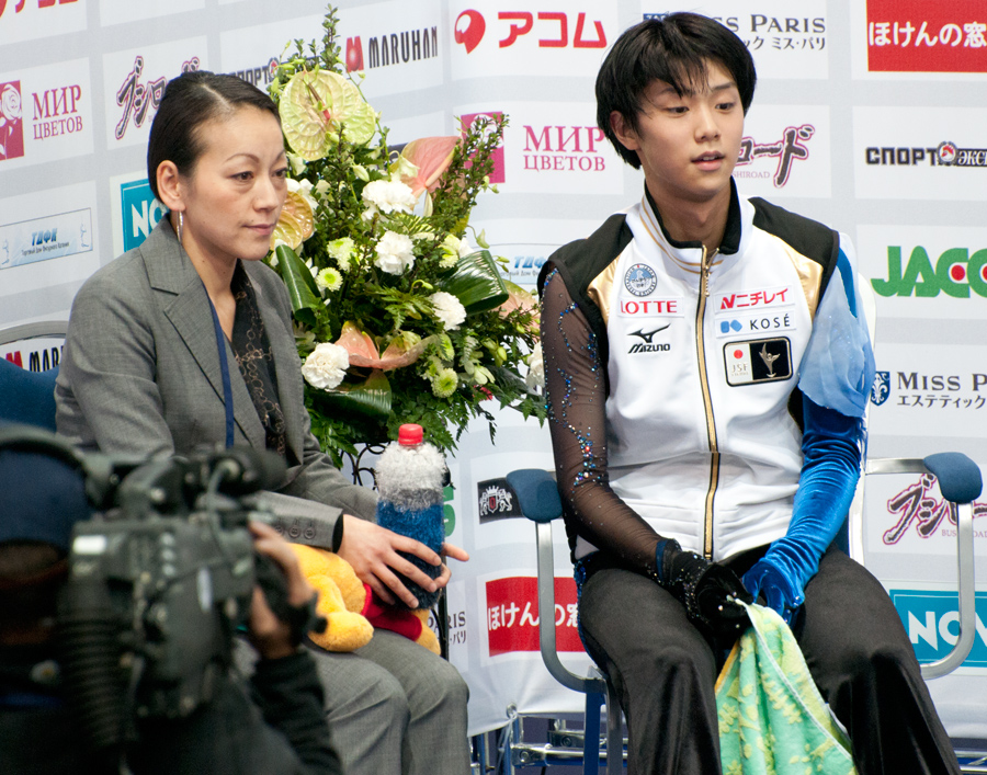 Hanyu with a coach (left) at the 2011 Cup of Russia, short program.